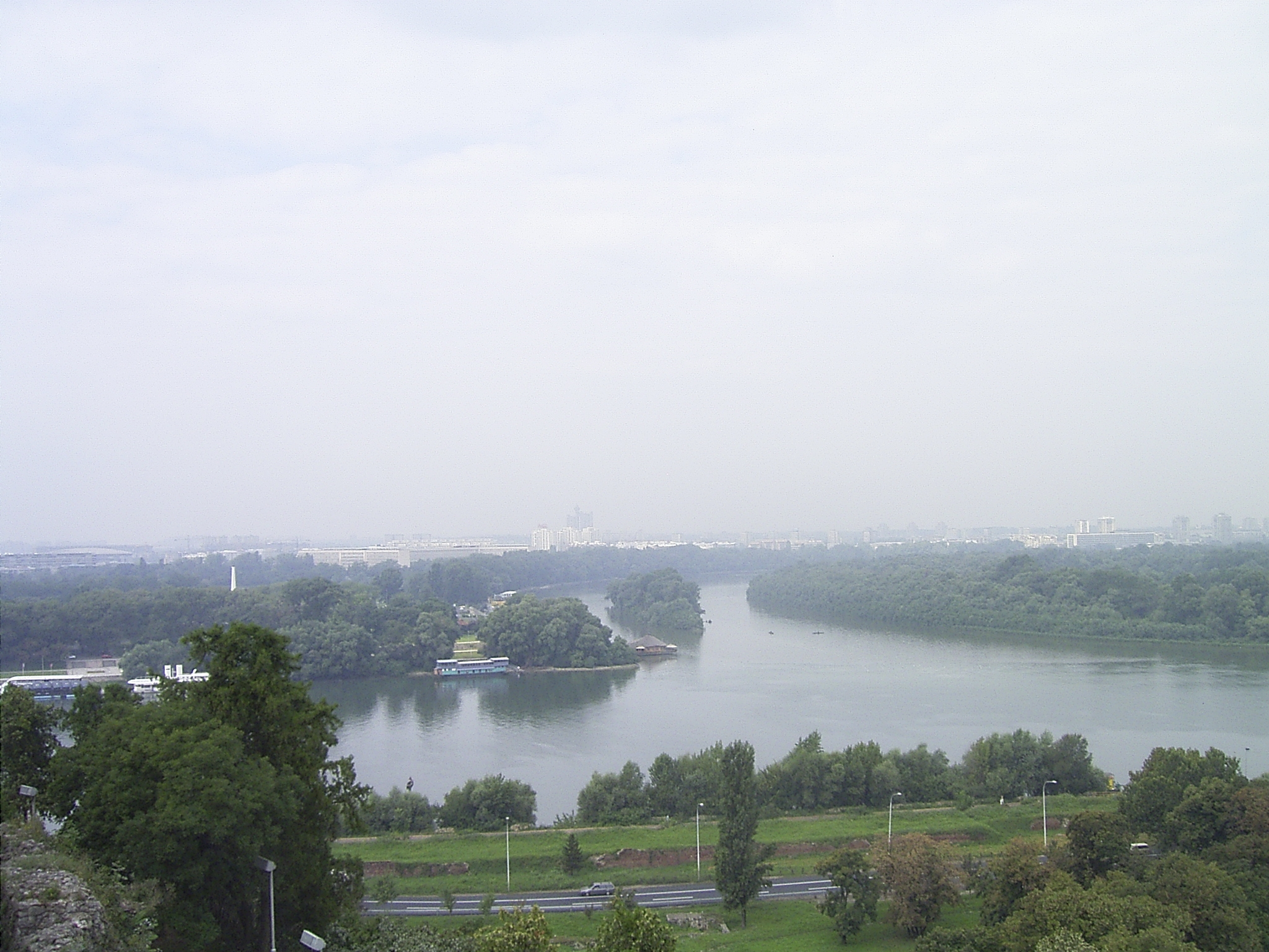 Belgrade, delta of the Sava (from left coming) into the Danube